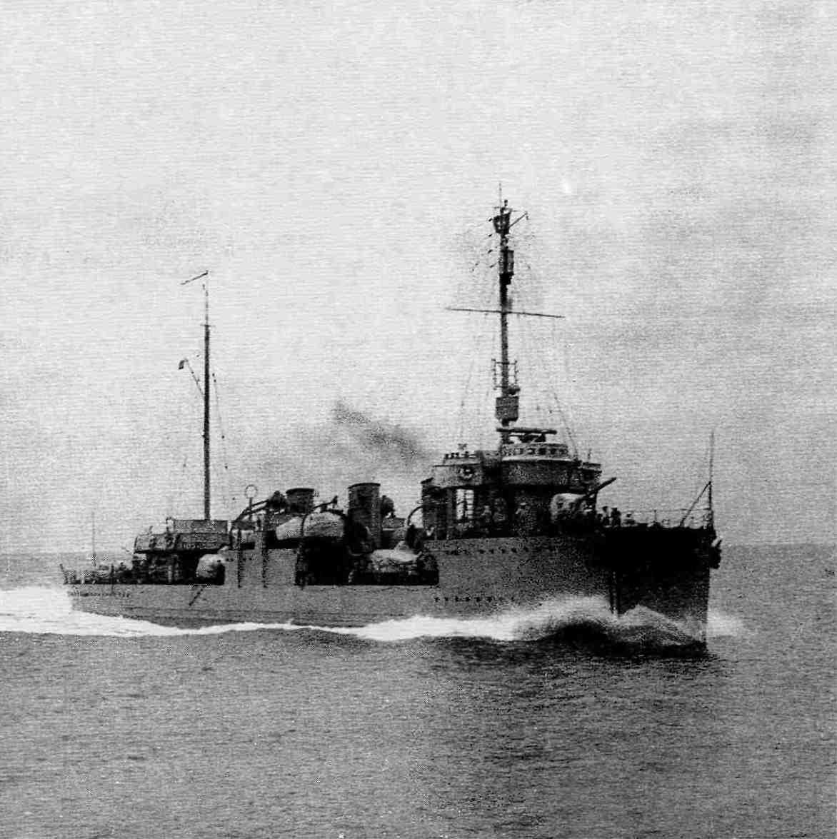 Soviet destroyer Shaumian.